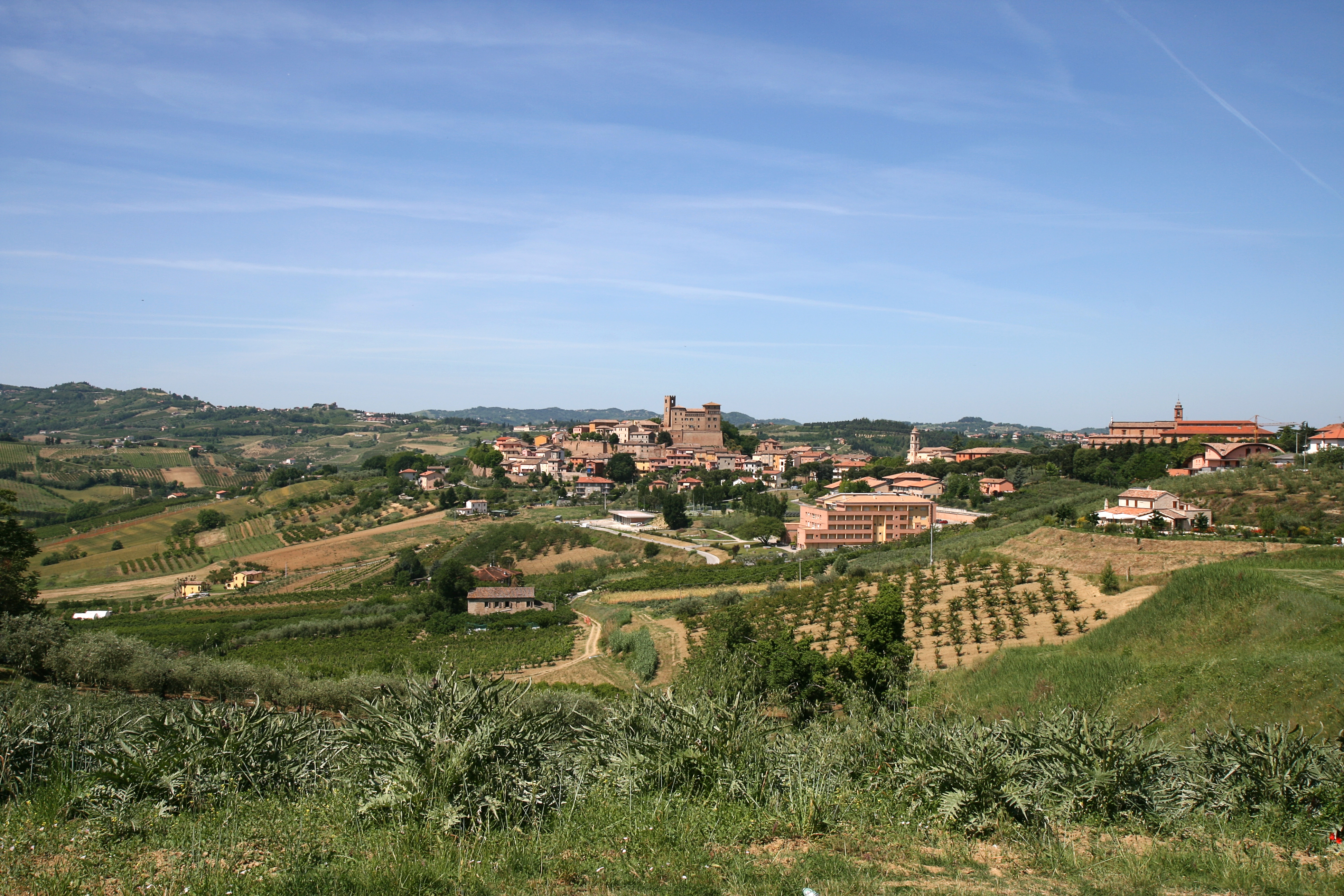 View from SE of Longiano and vicinity, Forlì Cesena Province, Emilia-Romagna Region, Italy.